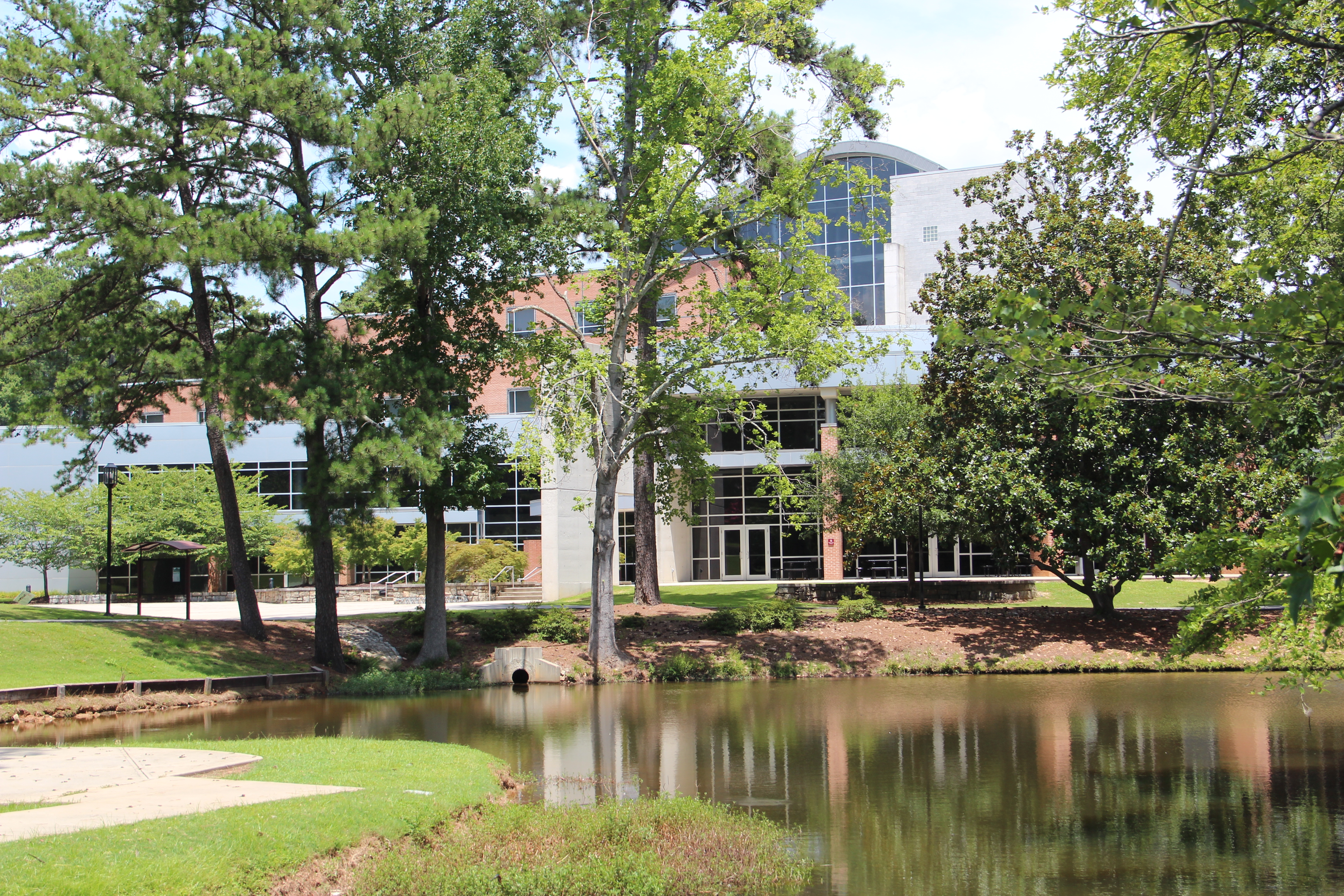 James M. Baker University Center